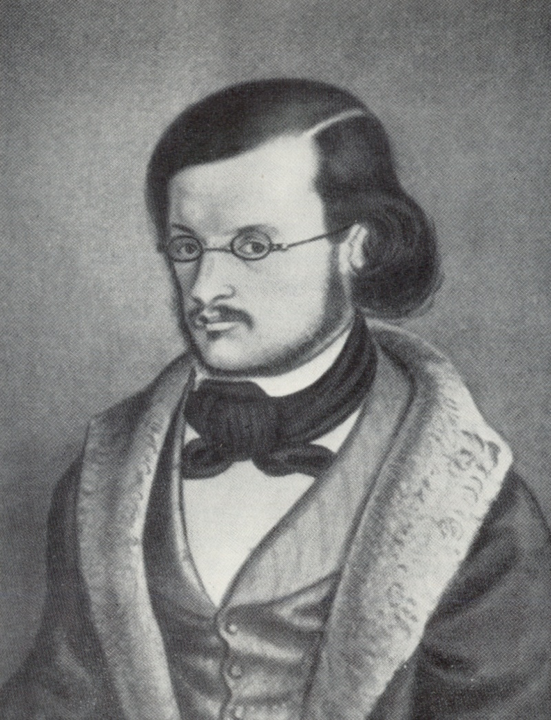 Swiss writer Franz von Sonnenfeld (pseudonym of Johann Gihr, 1821-1888). Painting from 1846 by unknown artist.